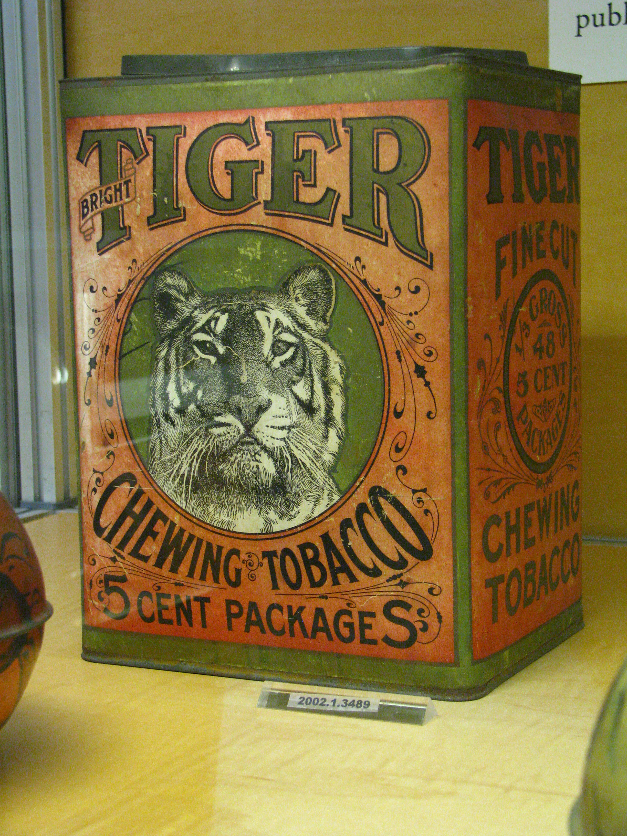 Tobacco tin, 1890-1920. Metal: 8 1/8 x 6 1/2 x 11 1/4 in. Gift of Bella C. Landauer. New-York Historical Society, 2002.1.3489. Wikipedia Loves Art at the New-York Historical Society This photo of item # 2002.1.3459 at the New-York Historical Society was contributed under the team name "the_adverse_possessors" as part of the Wikipedia Loves Art project in February 2009. New-York Historical Society The original photograph on Flickr was taken by _cck_—please add a comment to the original Flickr page whenever a use has been made on Wikipedia or another project. Project galleries on Flickr: this institution, this team